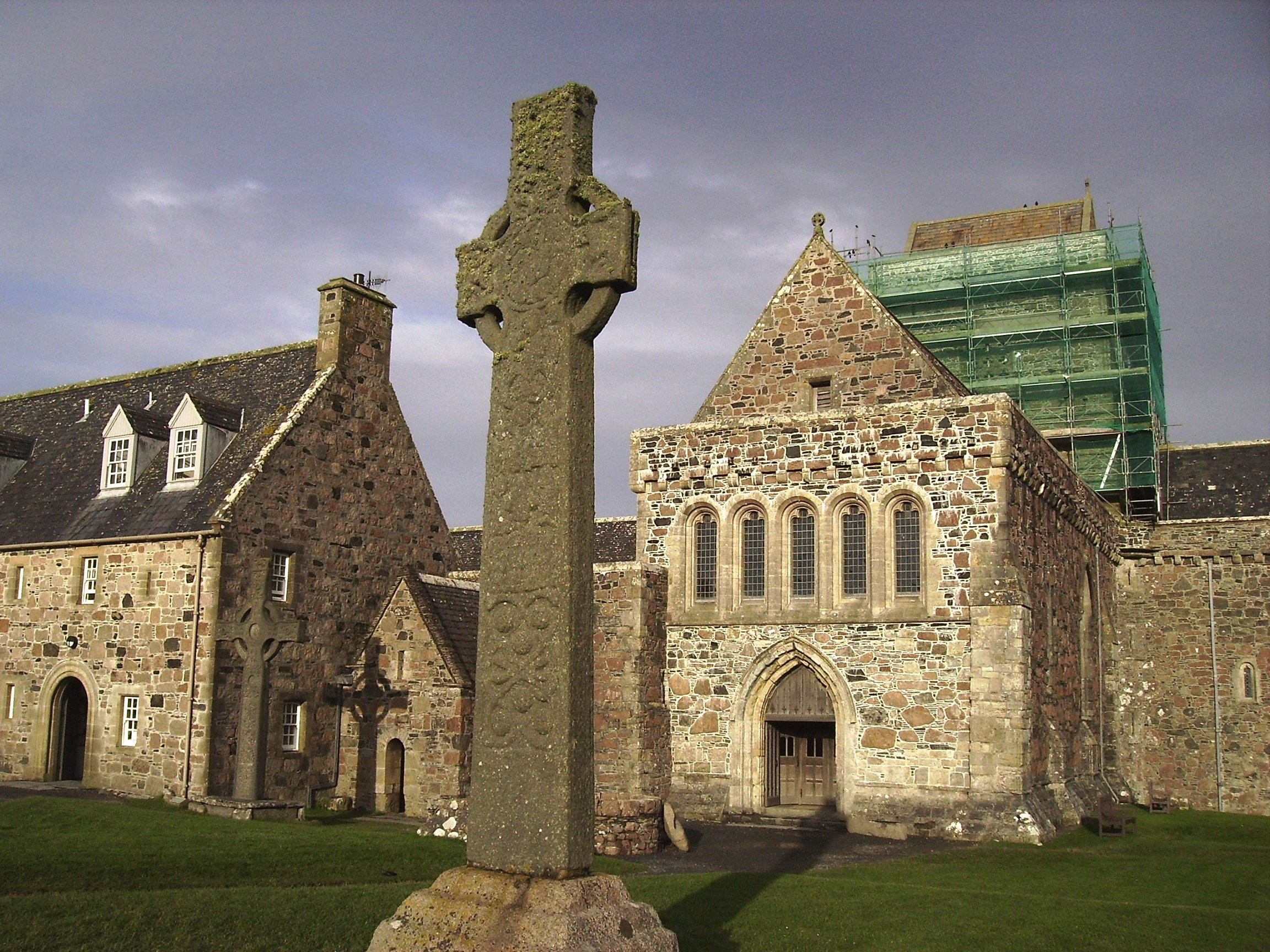 St Martin's cross, with St John's cross in the background, standing outside the entrance to Iona Abbey on the Isle of Iona, Scotland